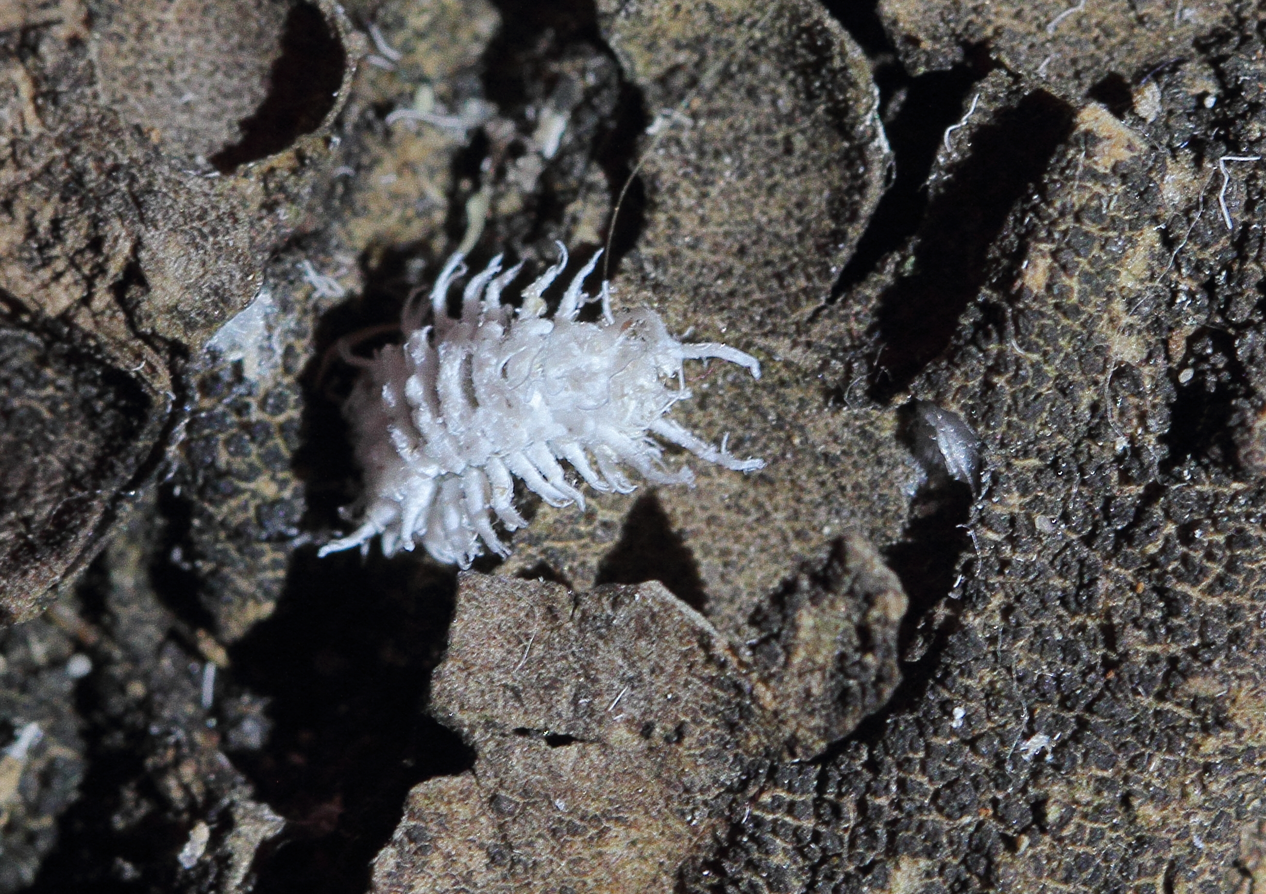 Larvae of cryptolaemus montrouzieri on the bark of a beaucarnea recurvata plant in private home. The parent beetles were bought for pest control.